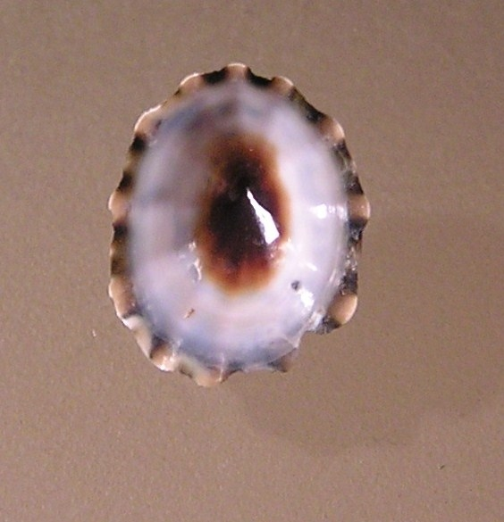 Scurria zebrina Lesson, 1830, a limpet from the family Lottiidae; Chile